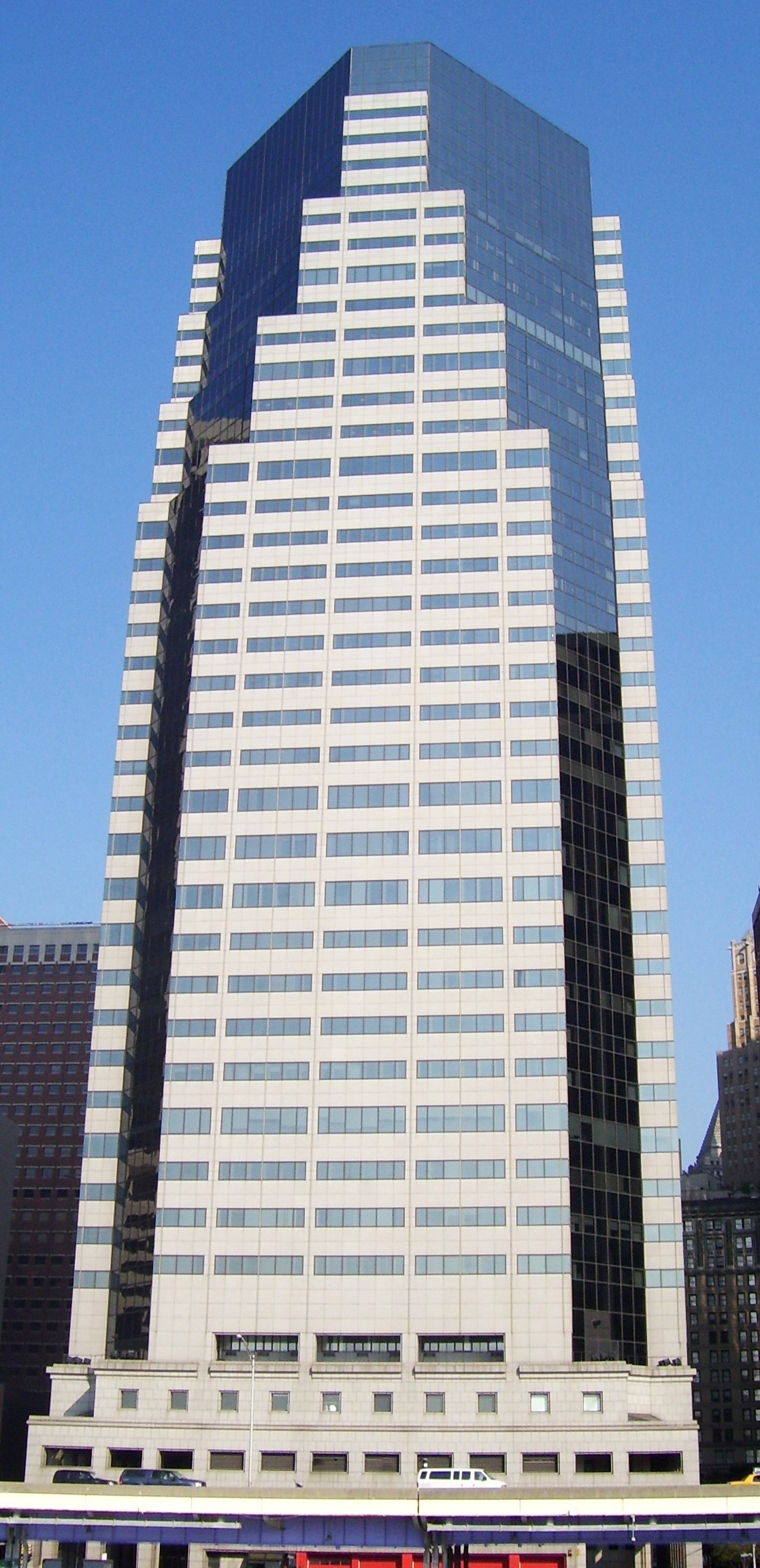 One Financial Square, at 32 Old Slip in the Financial District of Downtown Manhattan, New York City, as seen from the East River.